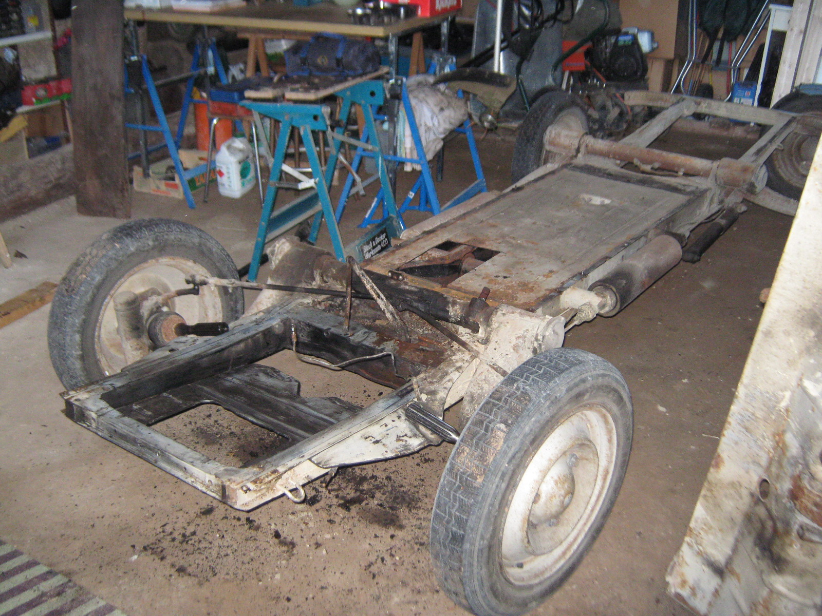 Citroën 2CV chassis.